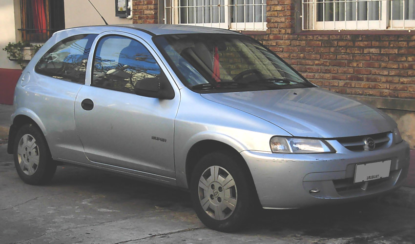 Front view of a pre-2006 Chevrolet Celta Super 3-door, pictured in Montevideo, Uruguay.